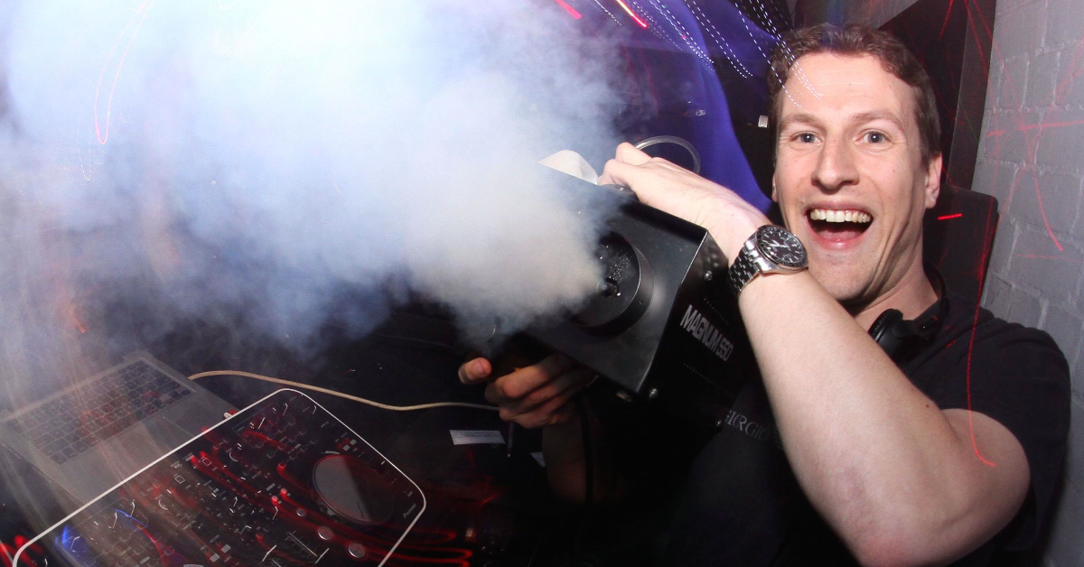 Andrew Marston at Naughty But Nice in Hereford